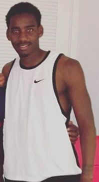 Rochez